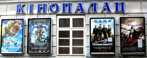 Films in Kinopalats cinema chain (Ukraine)